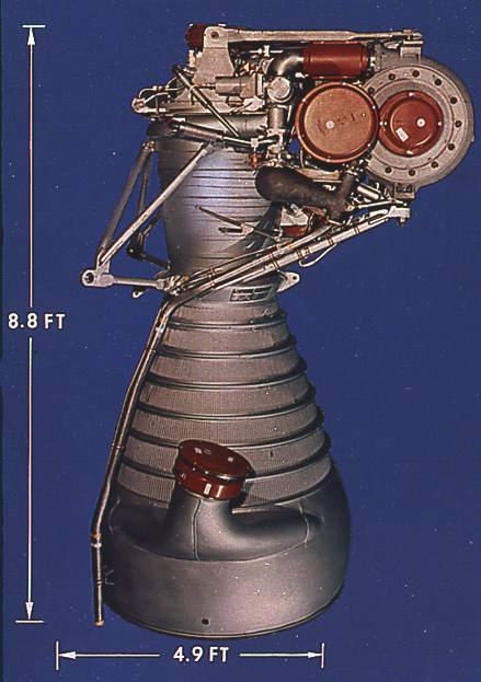 The H-1 rocket engine Vehicle EffectivitySA-201 through SA-205SA-206 and subsequentThrust (sea level)200,000 lb (890 kN)205,000 lb (912 kN)Thrust duration155 sec155 secSpecific impulse (lb-sec/lb)260.5 min261.0 minEngine weight dry (inboard)1,830 lb (830 kg)2,200 lb (998 kg)Engine weight dry (outboard)2,100 lb (953 kg)2,100 lb (953 kg)Engine weight burnout2,200 lb (998 kg)2,200 lb (998 kg)Exit-to-throat area ratio8:18:1PropellantsLOX & RP-1LOX & RP-1Mixture ratio2.23±2%2.23±2% Contractor: NAA/Rocketdyne Vehicle application: Saturn IB/S-IB stage (eight engines)